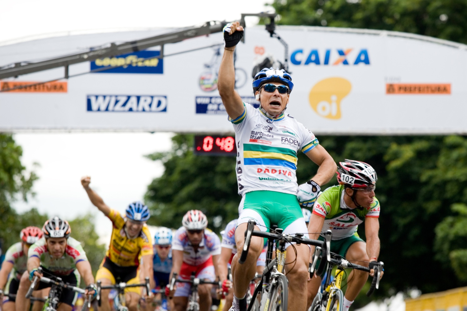 Brazilian road cyclist Nilceu Santos winning winning the 2008 Copa America